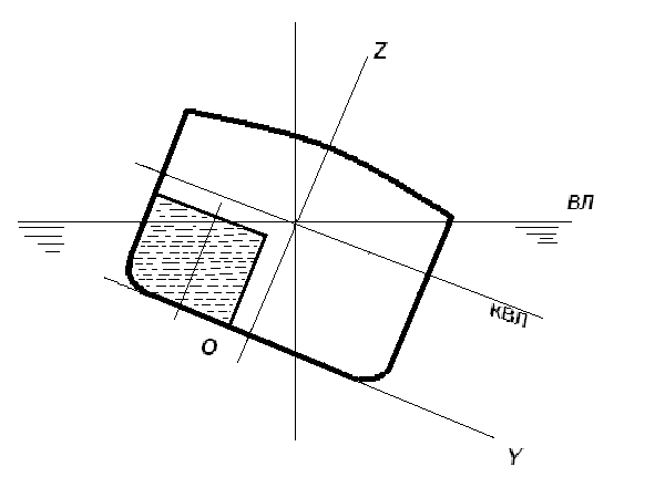 Ship flooding. Typical Case 3